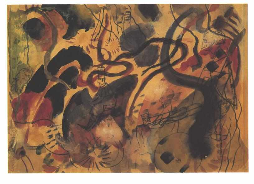 Persiflage to Der Blaue Reiter